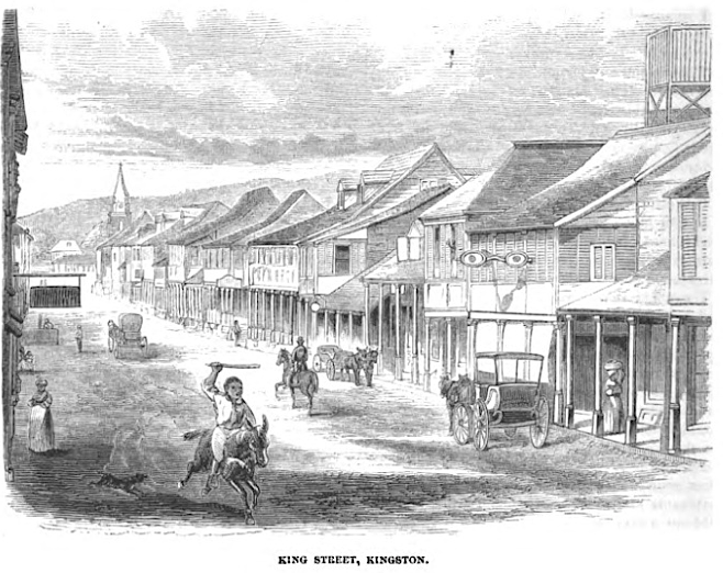 Kingston, Jamaica